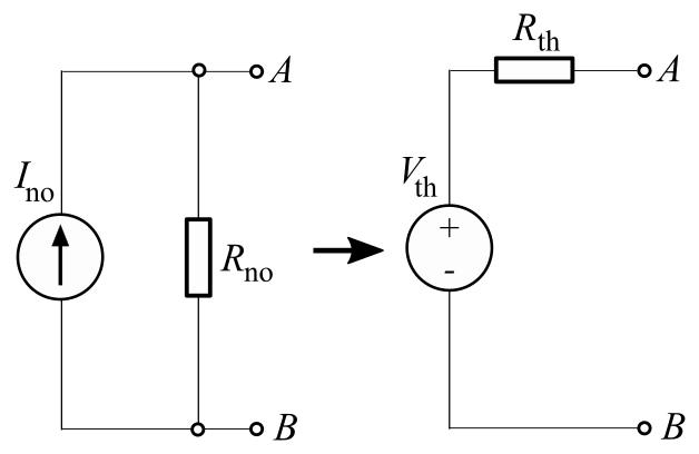 Norton Thevinen conversion